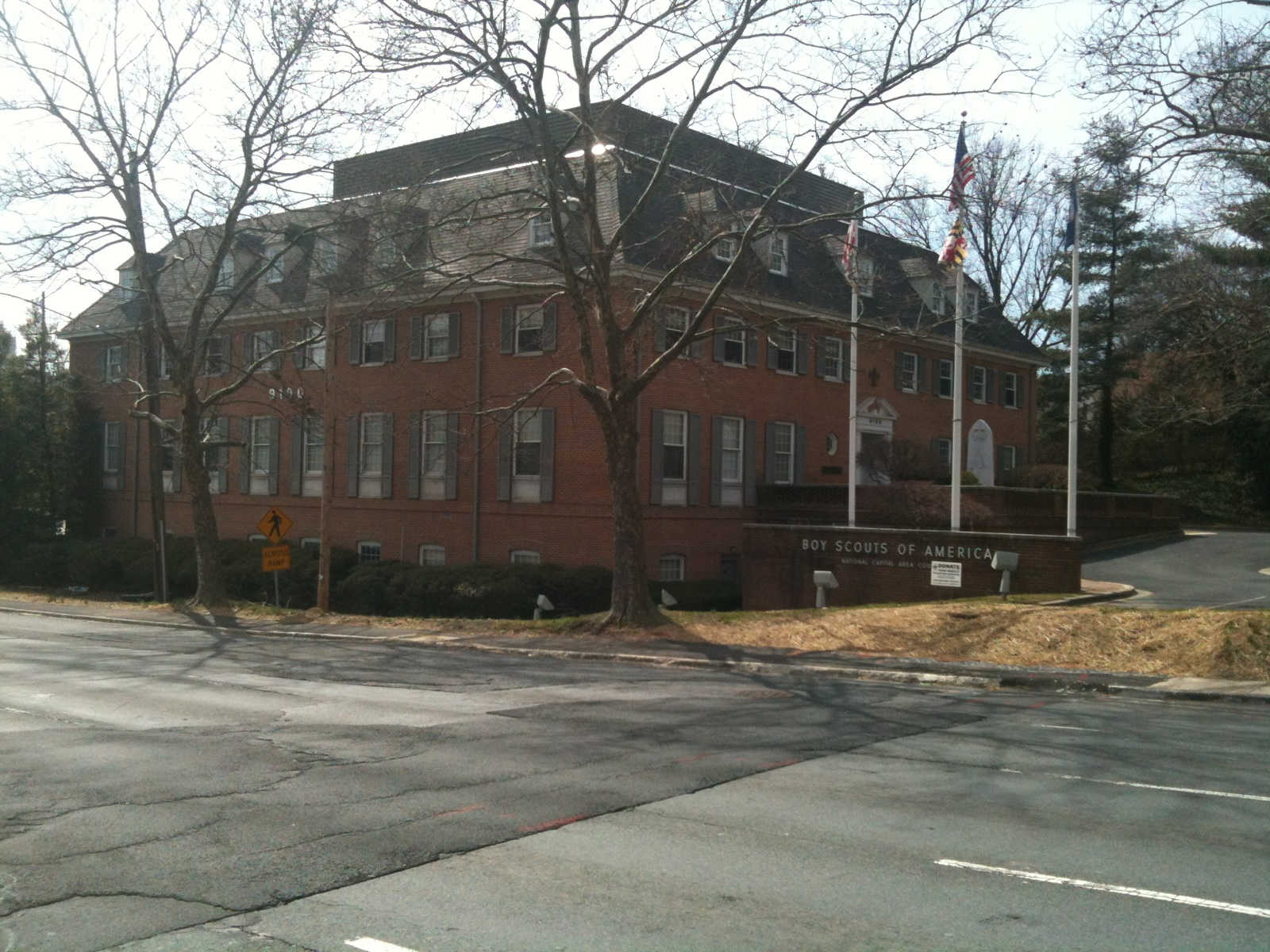 Headquarters Office, Boy Scouts of America